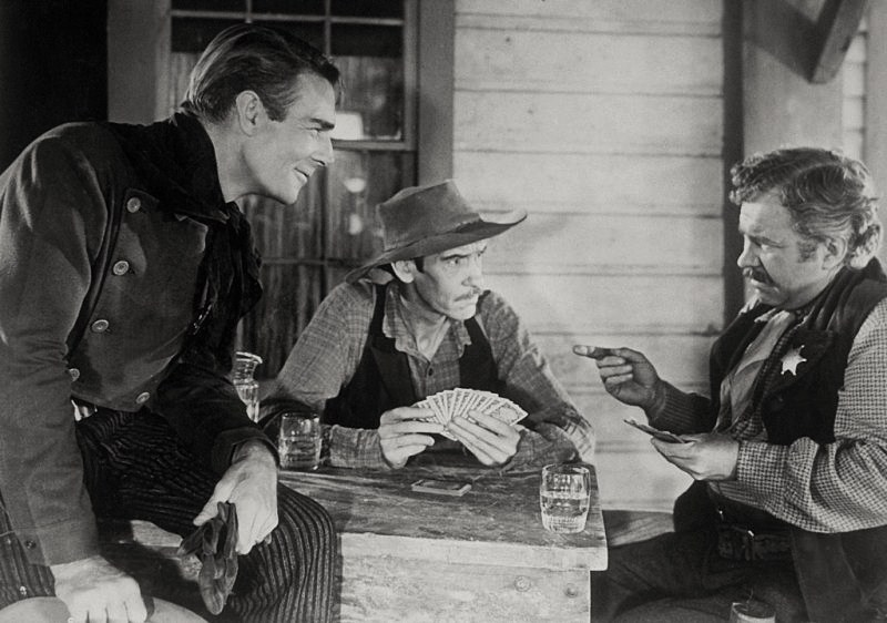 Screenshot of scene from the 1946 Western Abilene Town with actors (from left) Randolph Scott, Guy Wilkerson, and Edgar Buchanan. In this image Wilkerson, in an uncredited role, is playing the card game "fan-tan" with Sheriff "Bravo" Trimble (Edgar Buchanan) as the character Dan Mitchell (Randolph Scott) observes and talks to Trimble.